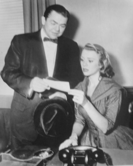 Publicity photo of Marvin Miller with Inger Stevens as a switchboard operator from The Millionaire, 1956.